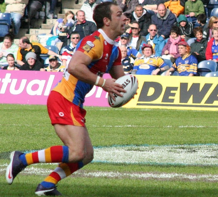 Luke Gale